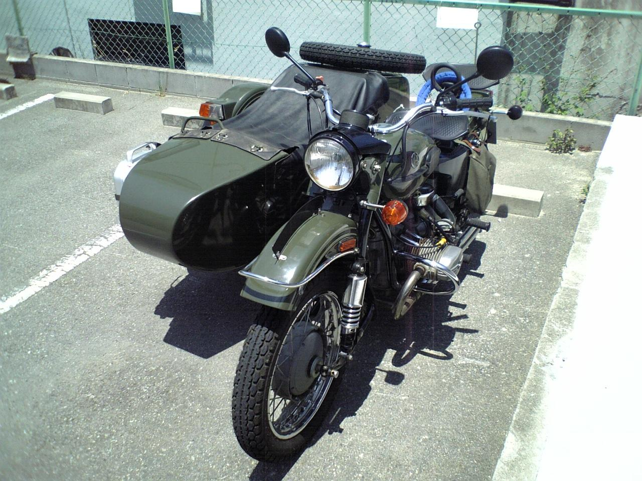 My Ural650cc Photo by Junji Matsumoto"COLONEL-J"